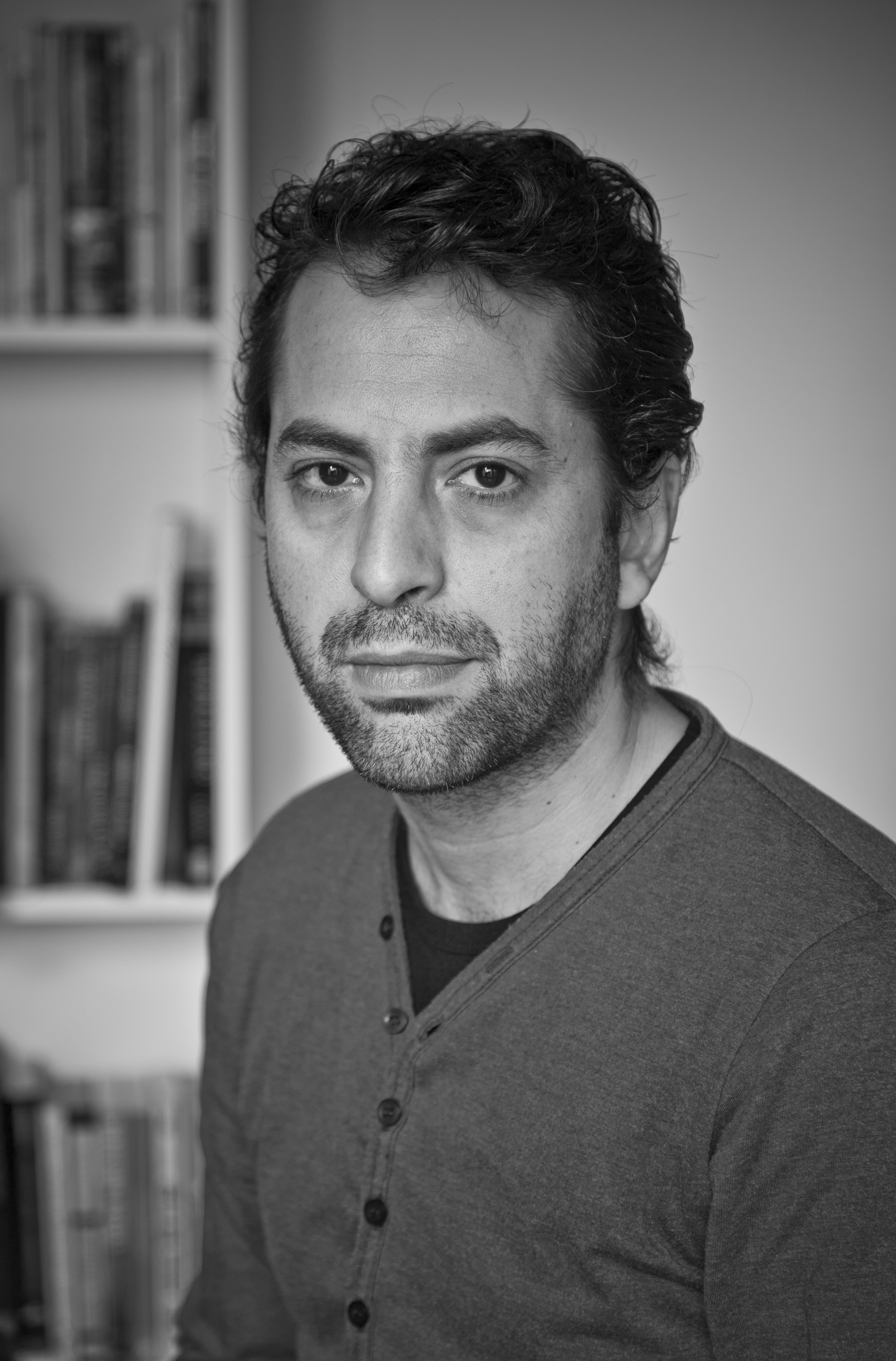 António Ferreira (film director)